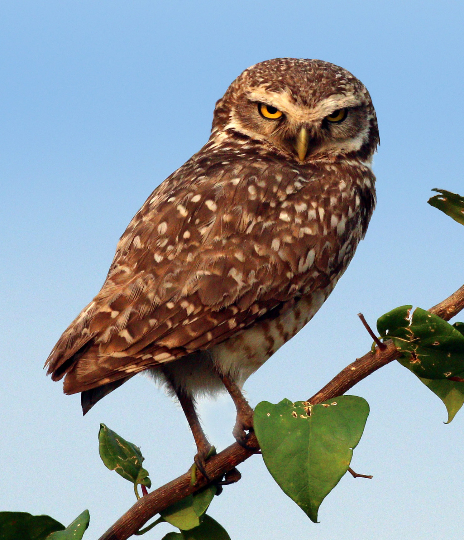 Brazilian burrowing owl (Athene cunicularia grallaria)